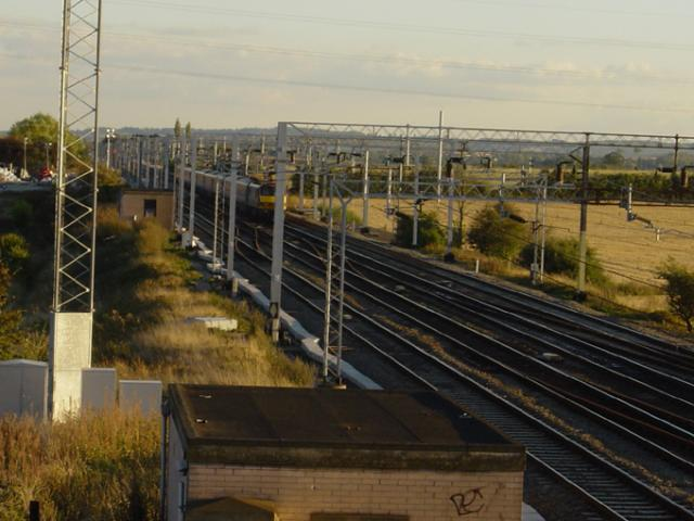 Red Light at Sears Crossing. Taken from the northern edge looking south over the grid, features Sear's Crossing (approx SP914219) where the Great Train Robbers took control of the Glasgow to London mailtrain in August 1963 by tweaking the stop lights.